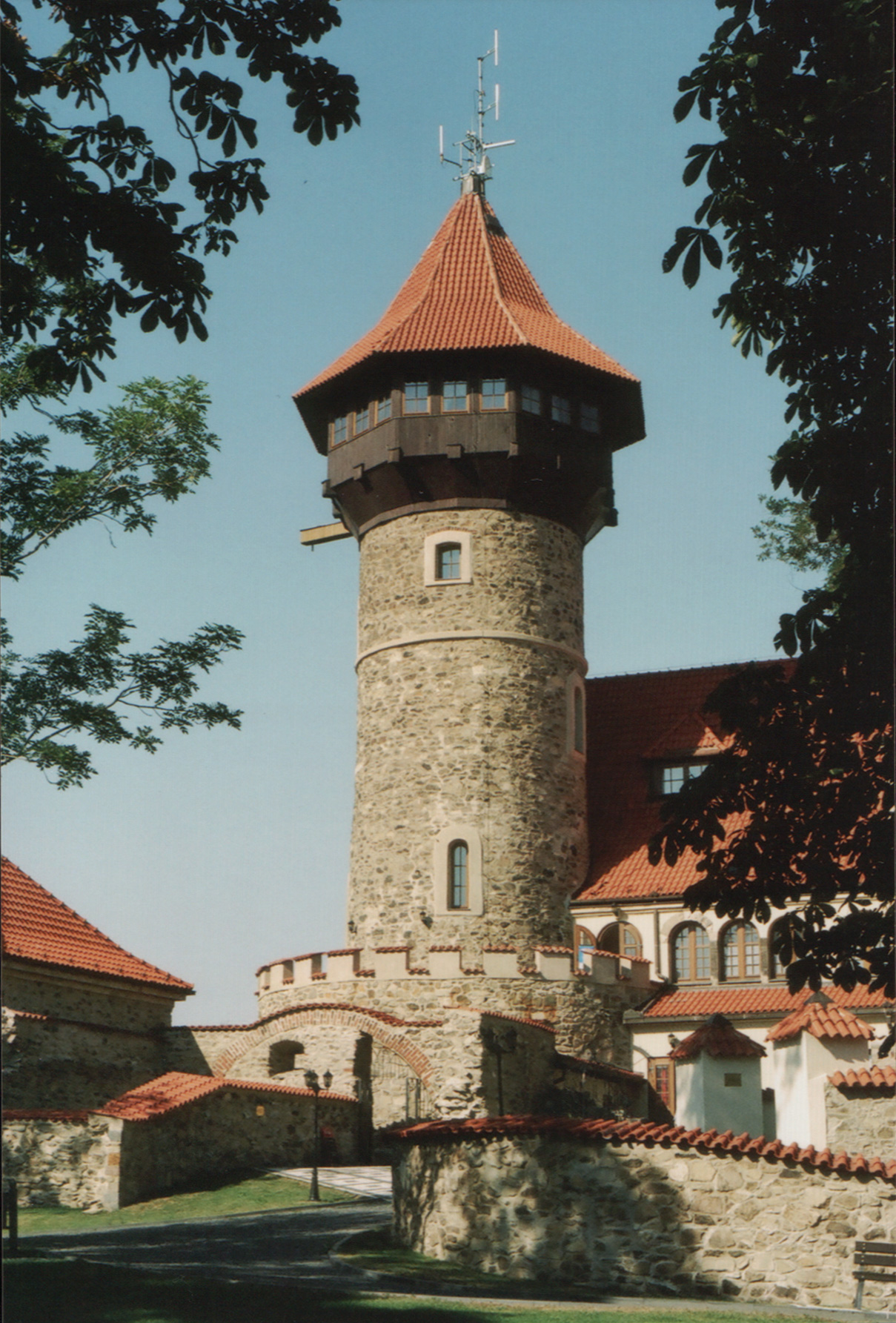 Lookout tower, Hnevin, Most